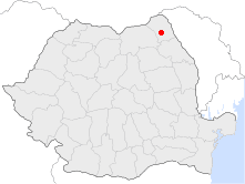 Location of Botoșani in Romania.